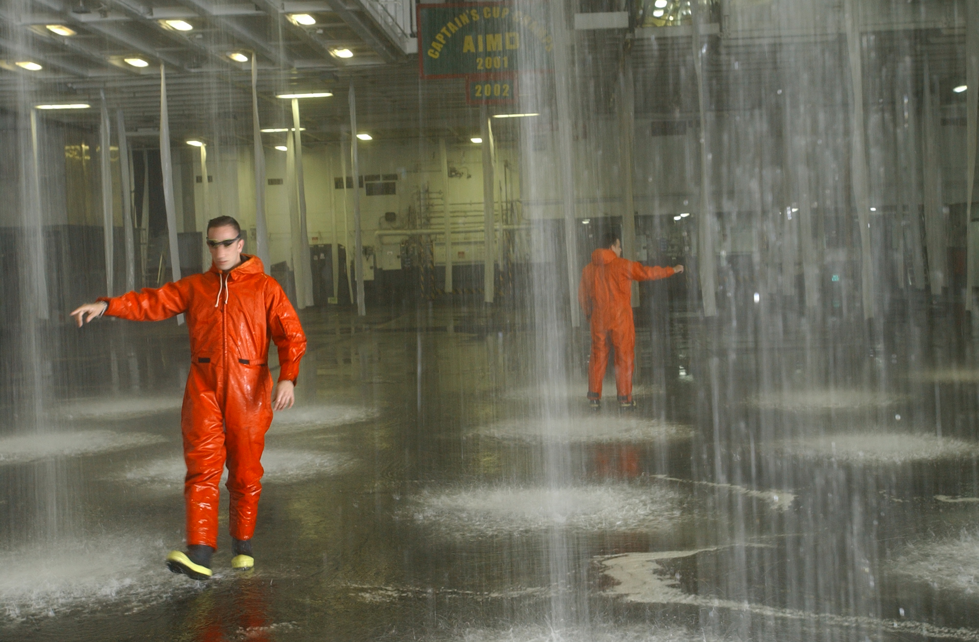 At sea aboard USS John C. Stennis (CVN 74) Jan. 28, 2003 -- Damage Controlman 3rd Class Nicholas Lewis from Sherman Oaks, Calif., inspect Aqueous Film Forming Foam (AFFF) overhead sprinkler systems in the ship’s hangar bay. The sprinkler test ensures the integrity of the fire fighting system in the event of an actual emergency. Stennis is conducting sea trials after completing a seven-month Planned Incremental Availability (PIA) period. U.S. Navy photo by Photographer’s Mate 2nd Class Jayme Pastoric. (RELEASED)